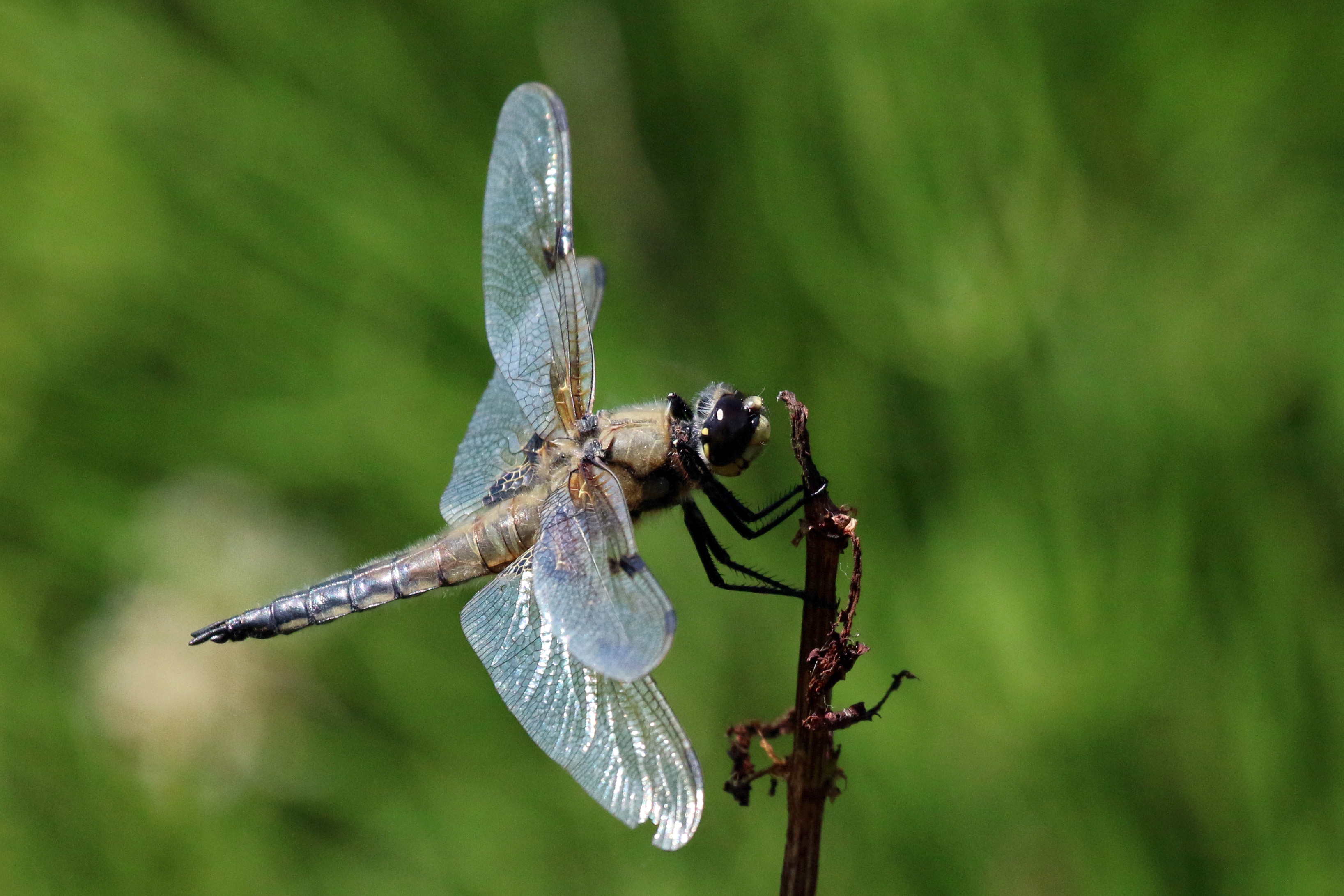 Four-spotted chaser dragonfly (Libellula quadrimaculata) male, Farmoor Reservoir, Oxfordshire